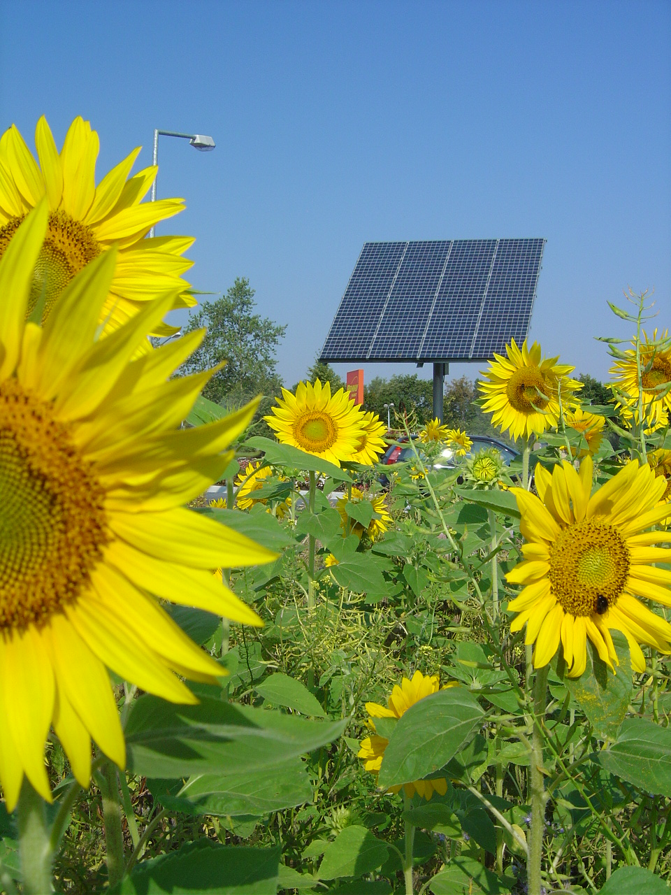 Solar cell panel at a sunflower field, Bürstadt, Germany